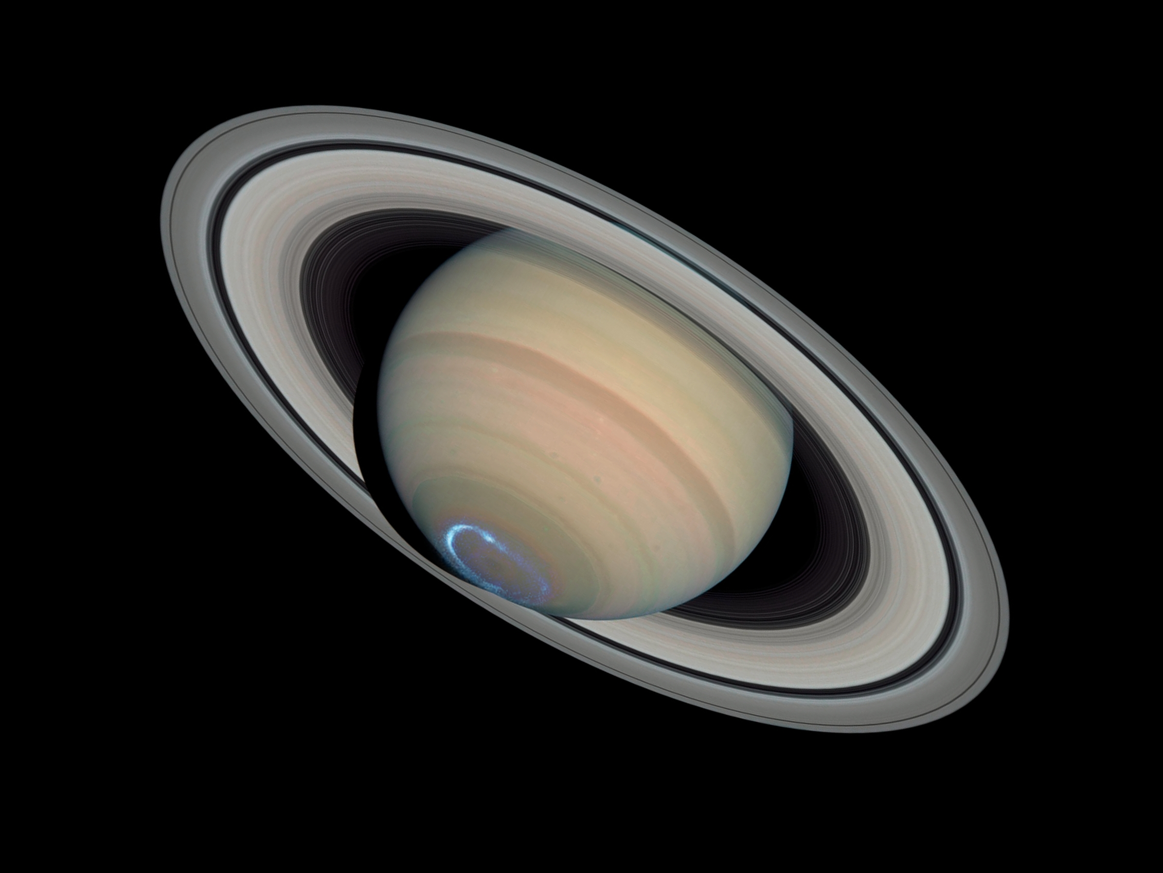 Photomontage of Saturn with a false-colour image of ultraviolet aurora taken with the Imaging Spectrograph on January 24 superimposed on an image of visible light taken with the Advanced Camera for Surveys on March 22, 2004 from NASA's Hubble Space Telescope